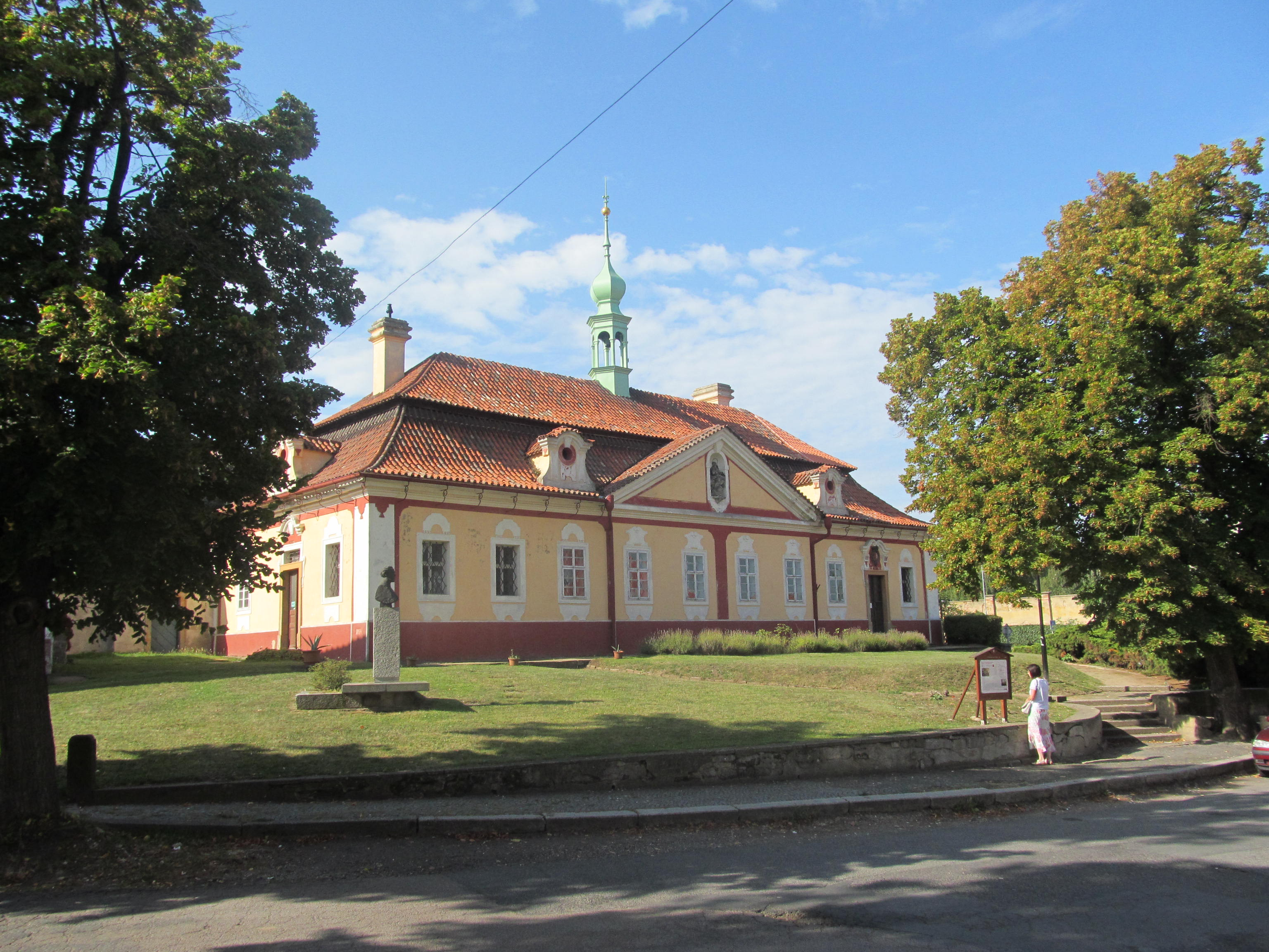 Antonín Dvořák memorial Zlonice